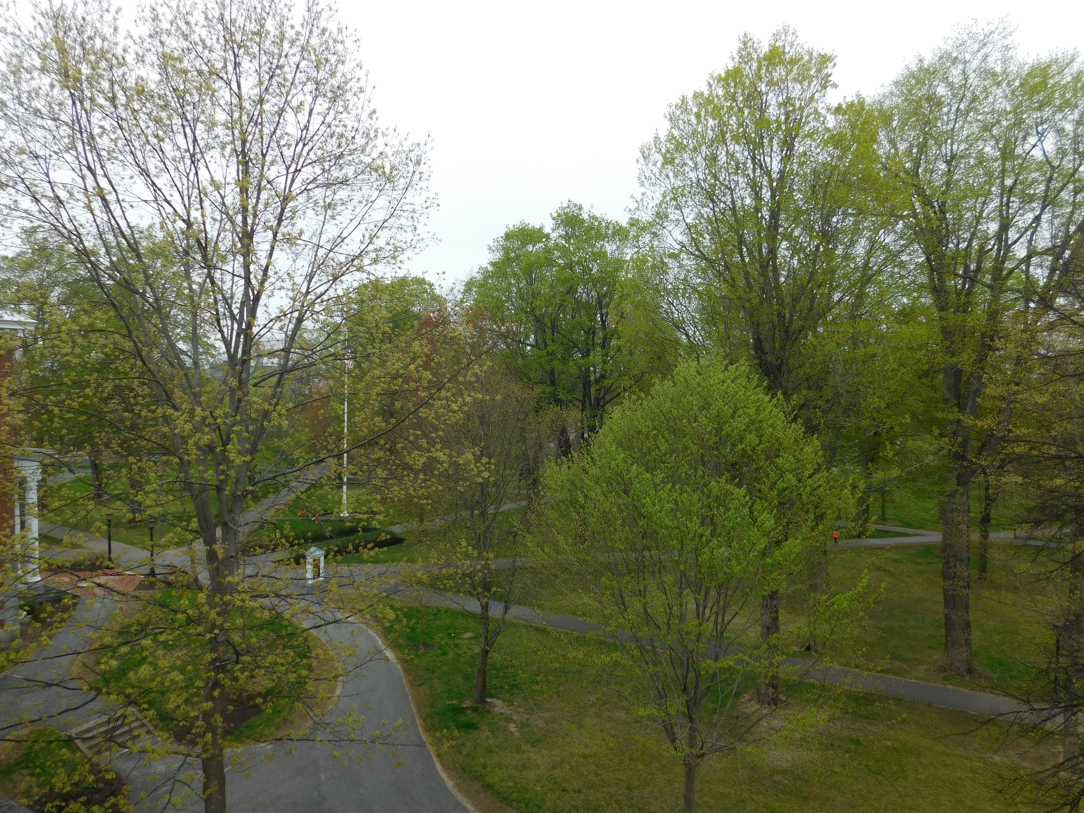 Green Scenery of Bates College